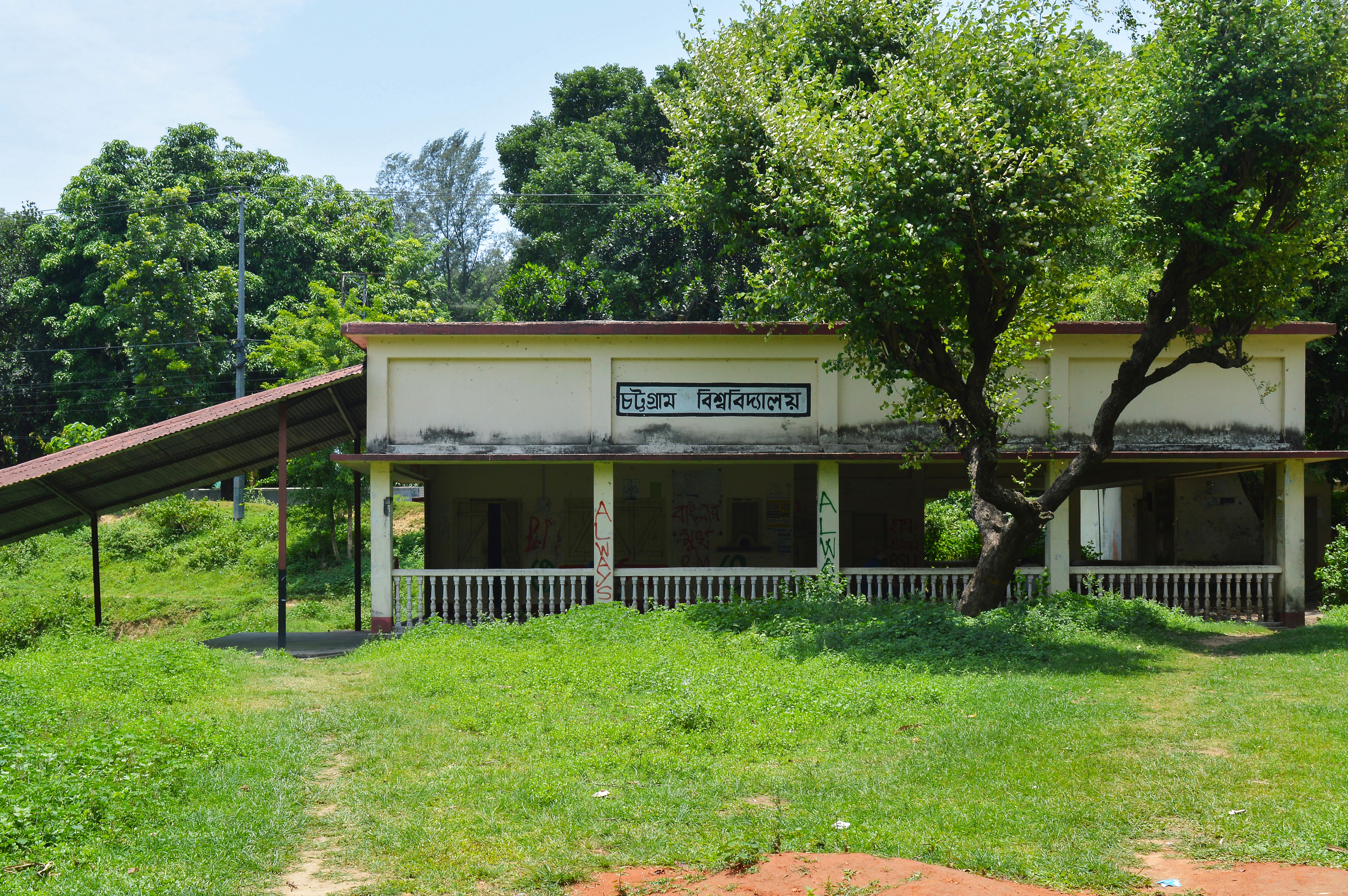 Chittagong University Railway station, Hathazari, Chittagong. (eastern axis)